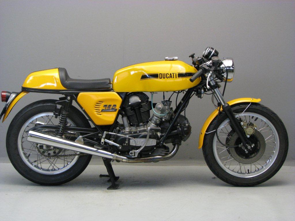 Ducati 750 S motorcycle from 1975